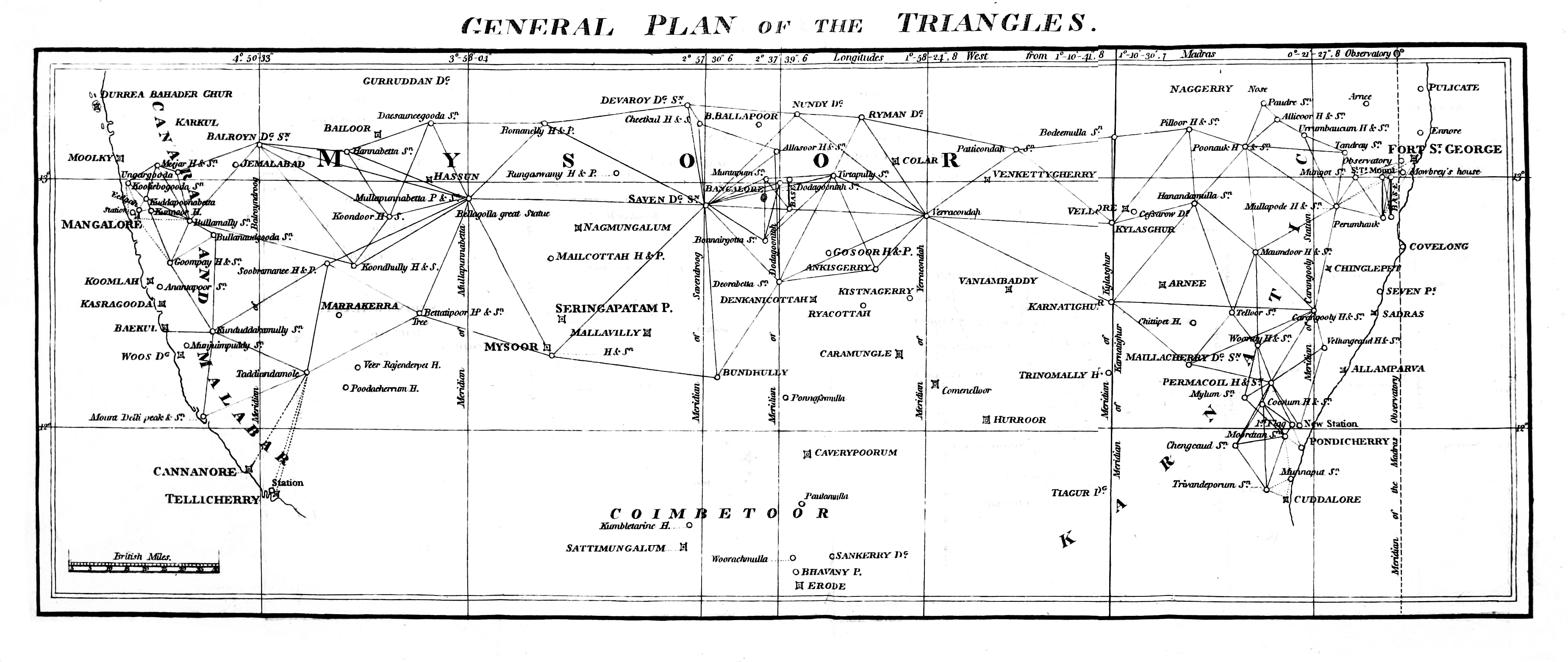 Great Trigonometrical Survey peninsula of India operations